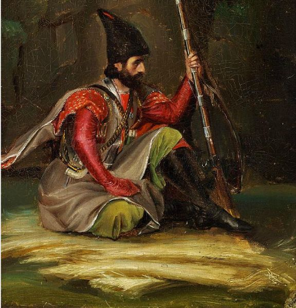 Martinus Rørbye - A seated Kabyla